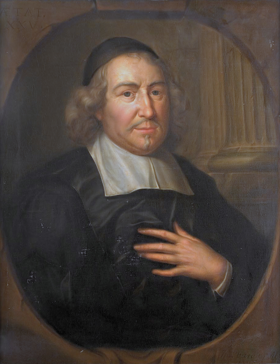 Abraham Heidanus, professor in Theology oil on canvas 77 x 61 cm signed b.r.: H. Vander Mij. Pinx. inscribed t.l: AETAT. (...)XXV.